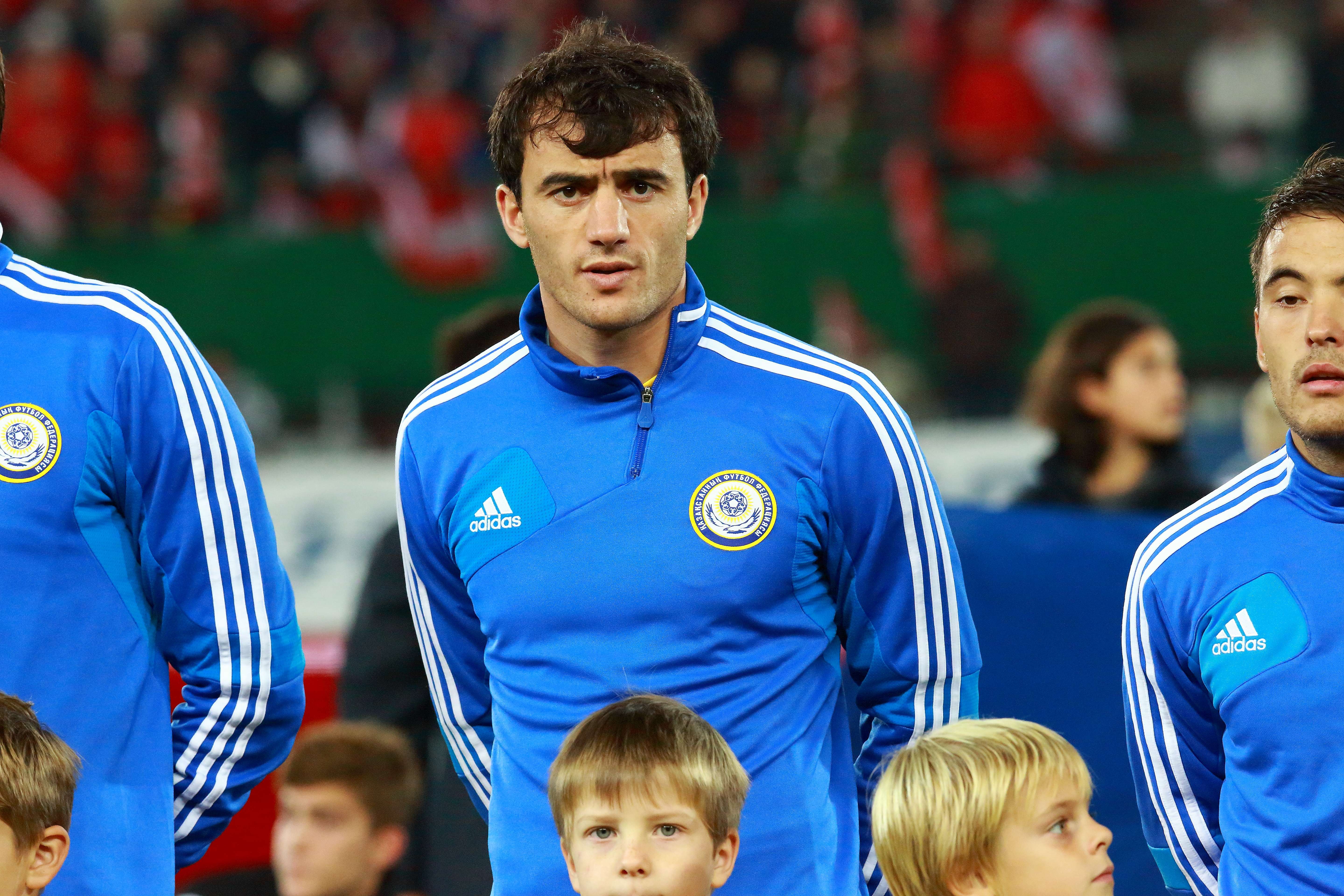 Mukhtar Mukhtarov before the match against Austria on October 16th 2012.